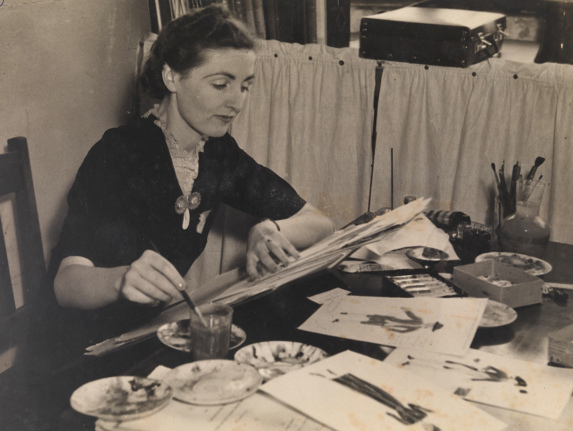 Thelma Afford, costume designer, working on Sydney’s Sesquicenteneary “March to Nationhood”, 1938, vintage gelatin silver print, State Library of New South Wales, PX*D 330/f.229